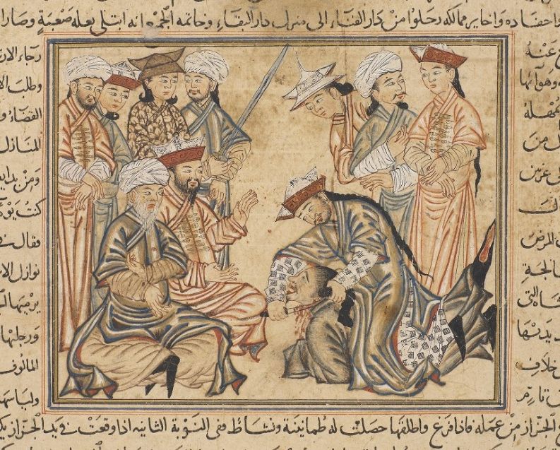 Abu'l-Husain Utbi being murdeed. This painting is from the book Jami' al-Tawarikh (literally "Compendium of Chronicles" but often referred to as The Universal History or History of the World), by Rashid al-Din, published in Tabriz, Persia, 1307 A.D.